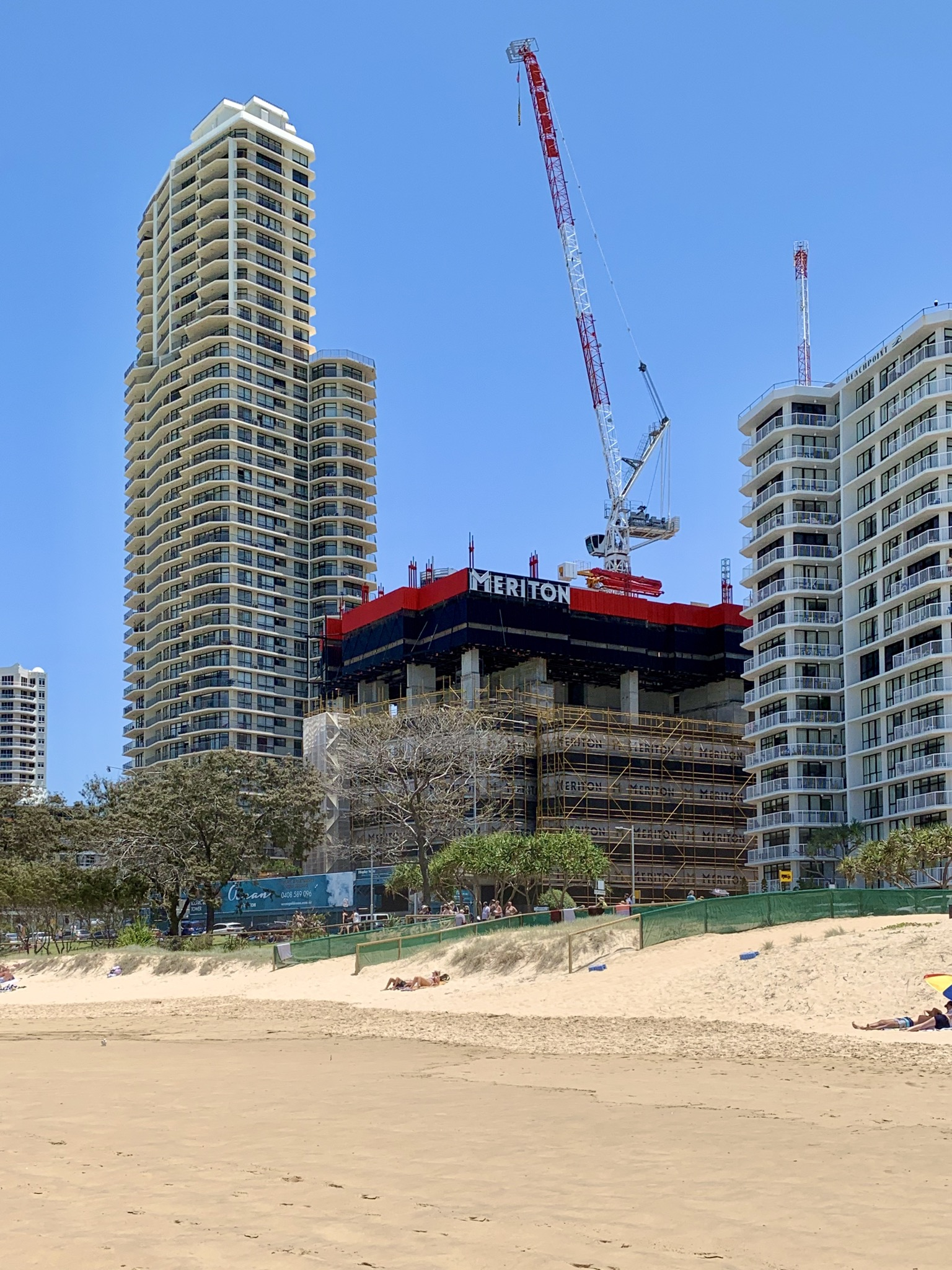 Ocean (building) under construction in January 2020